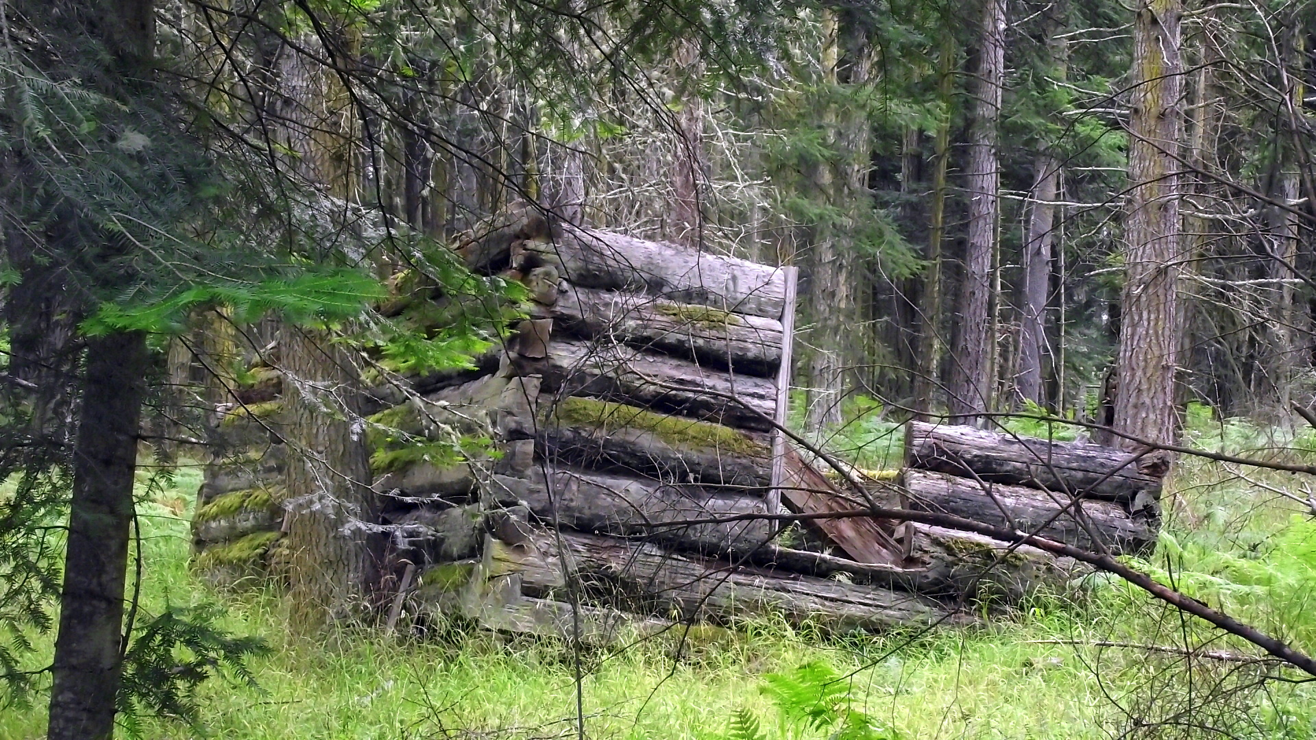 At Reed Net Point